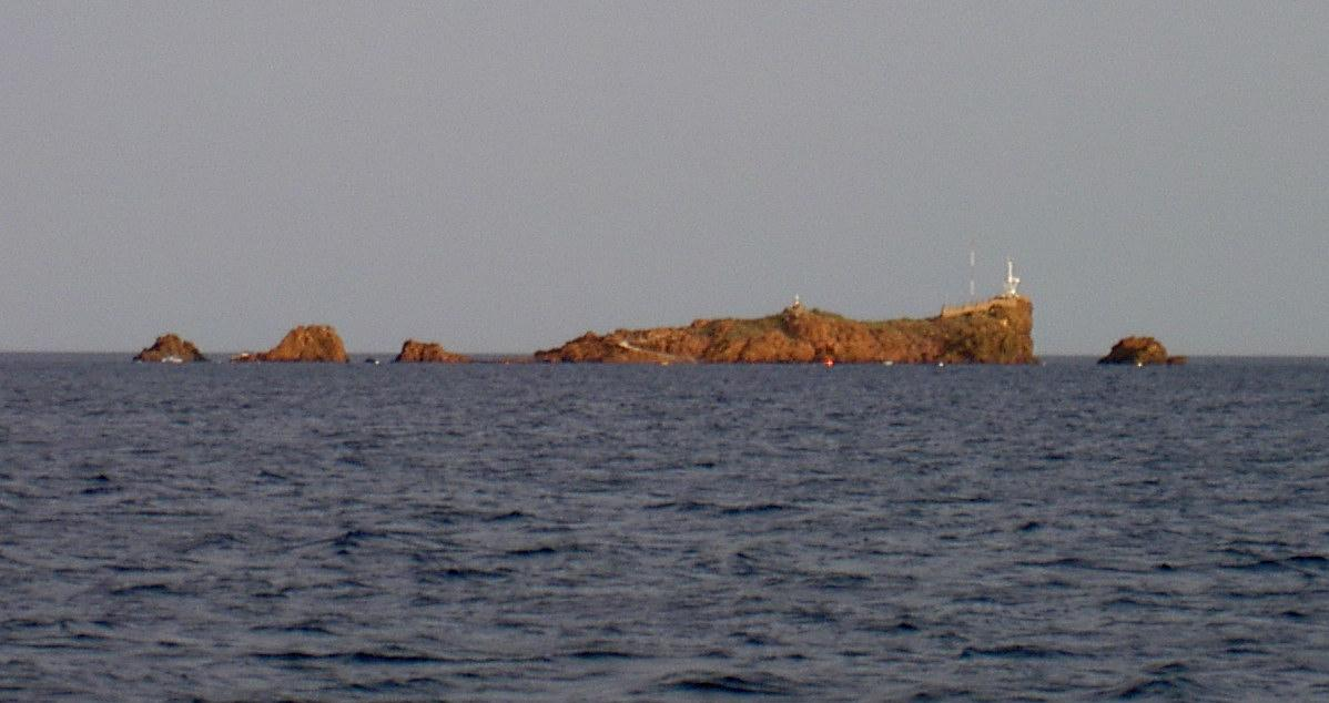 Island of "Lion de mer" in Saint-Raphaël Bay (France).